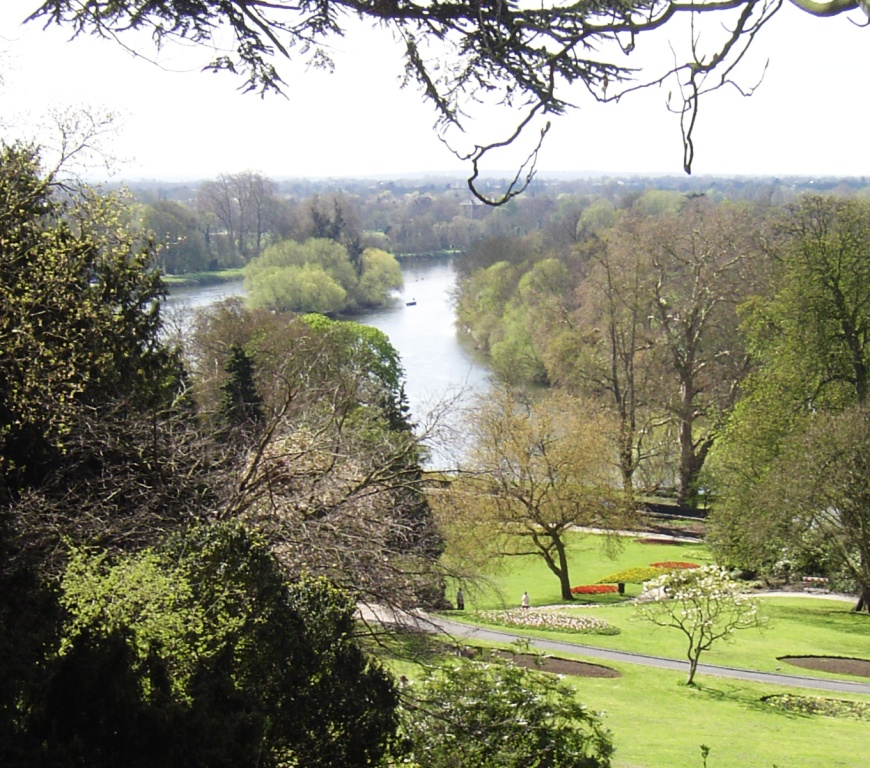 Glovers Isle from Richmond Hill Ricmond Surrey